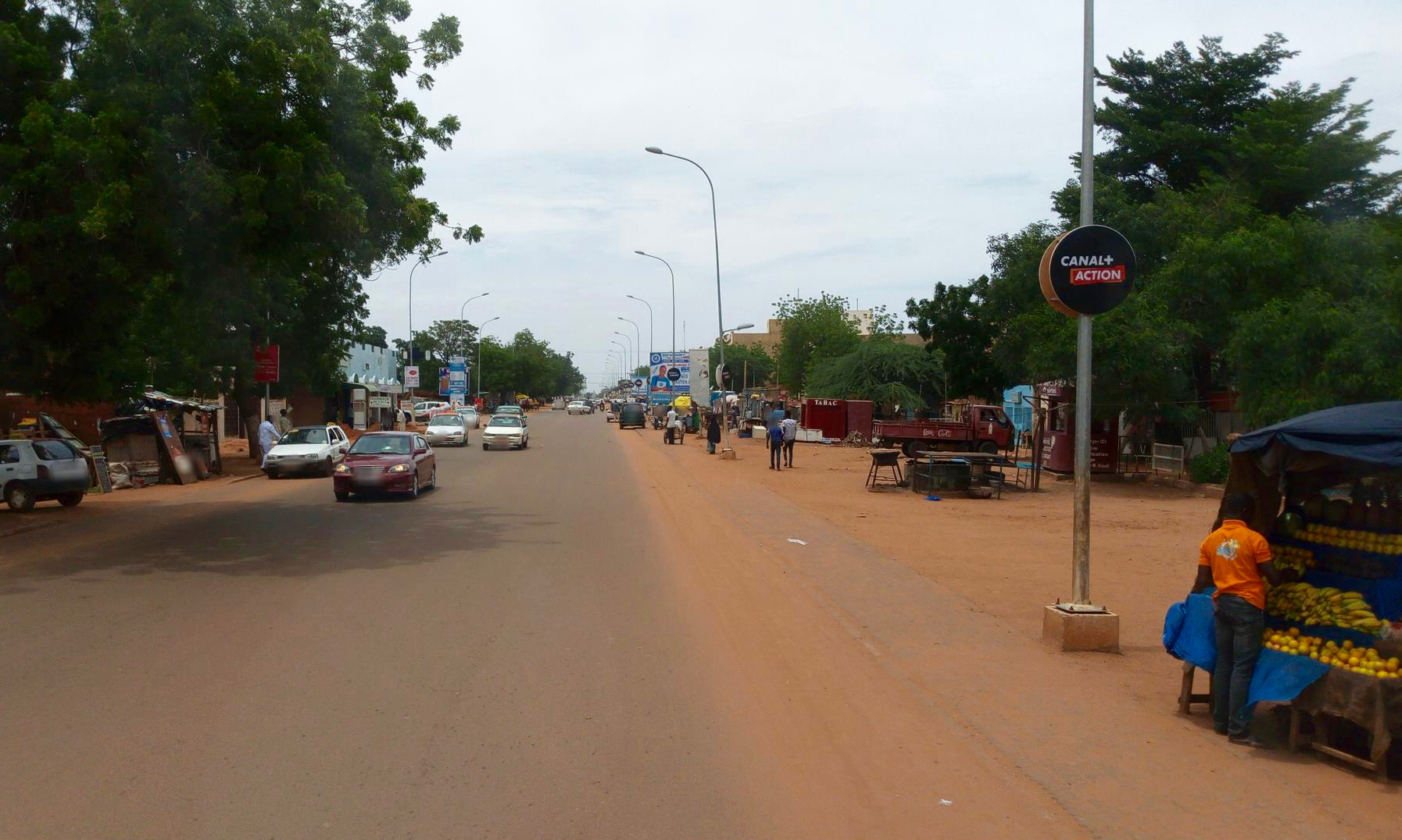 Avenue de l’Entente as the boundary road between the quarters of Poudrière (left) and Collège Mariama (right), Niamey.